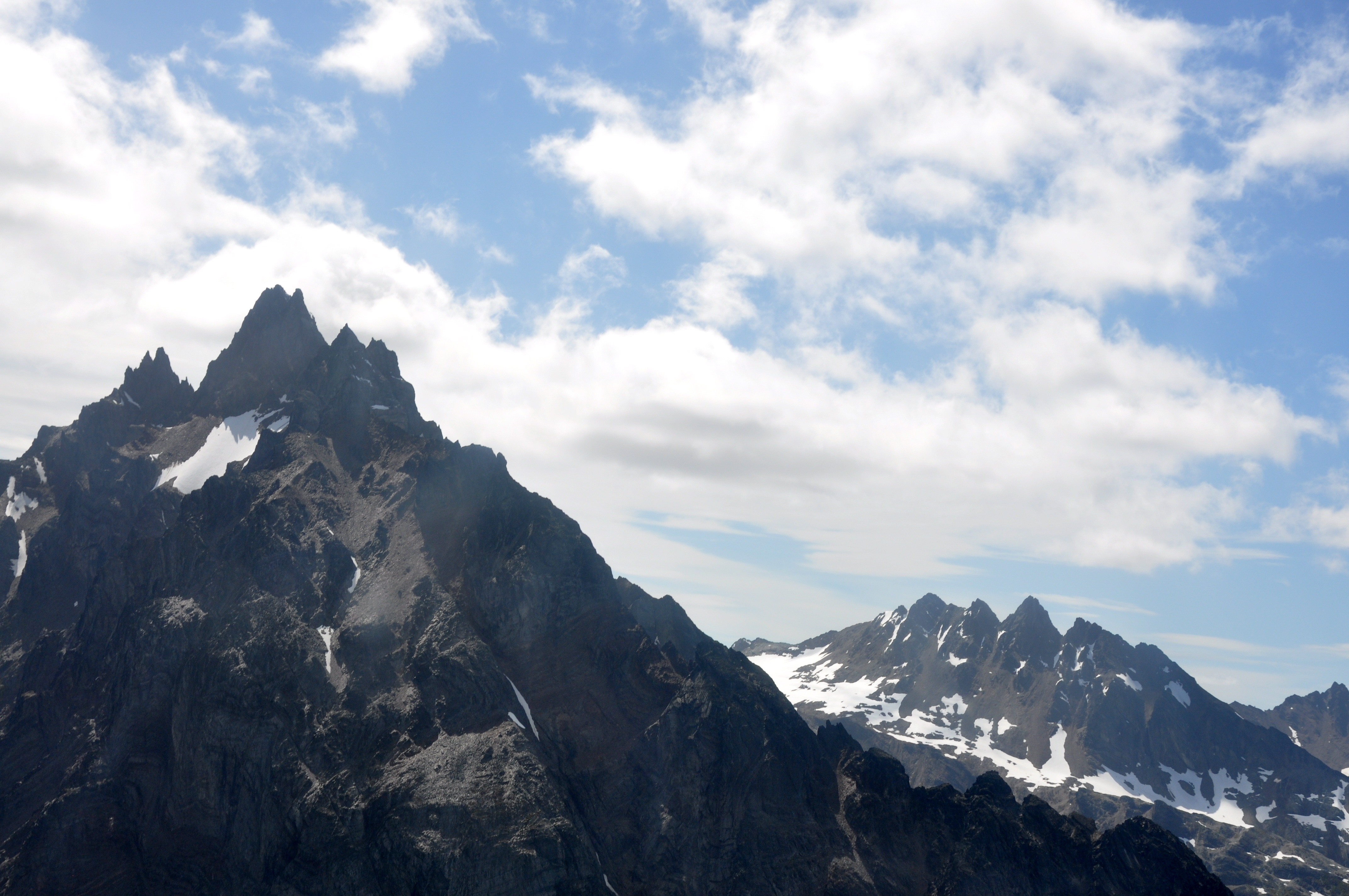 View of Monte Olivia (front/left) and cerro Cinco Hermanos (back/right), Ushuaia (Argentina)